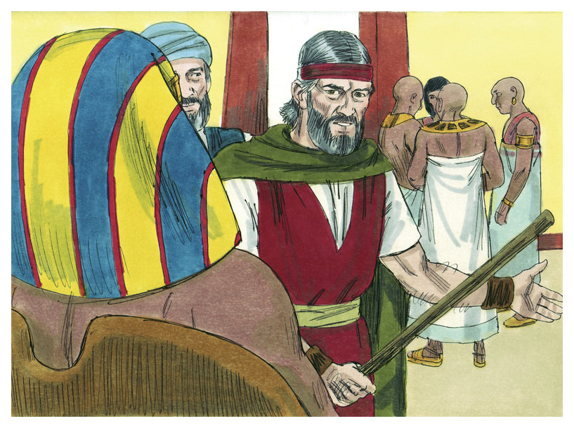 Biblical illustration of Book of Exodus Chapter 10